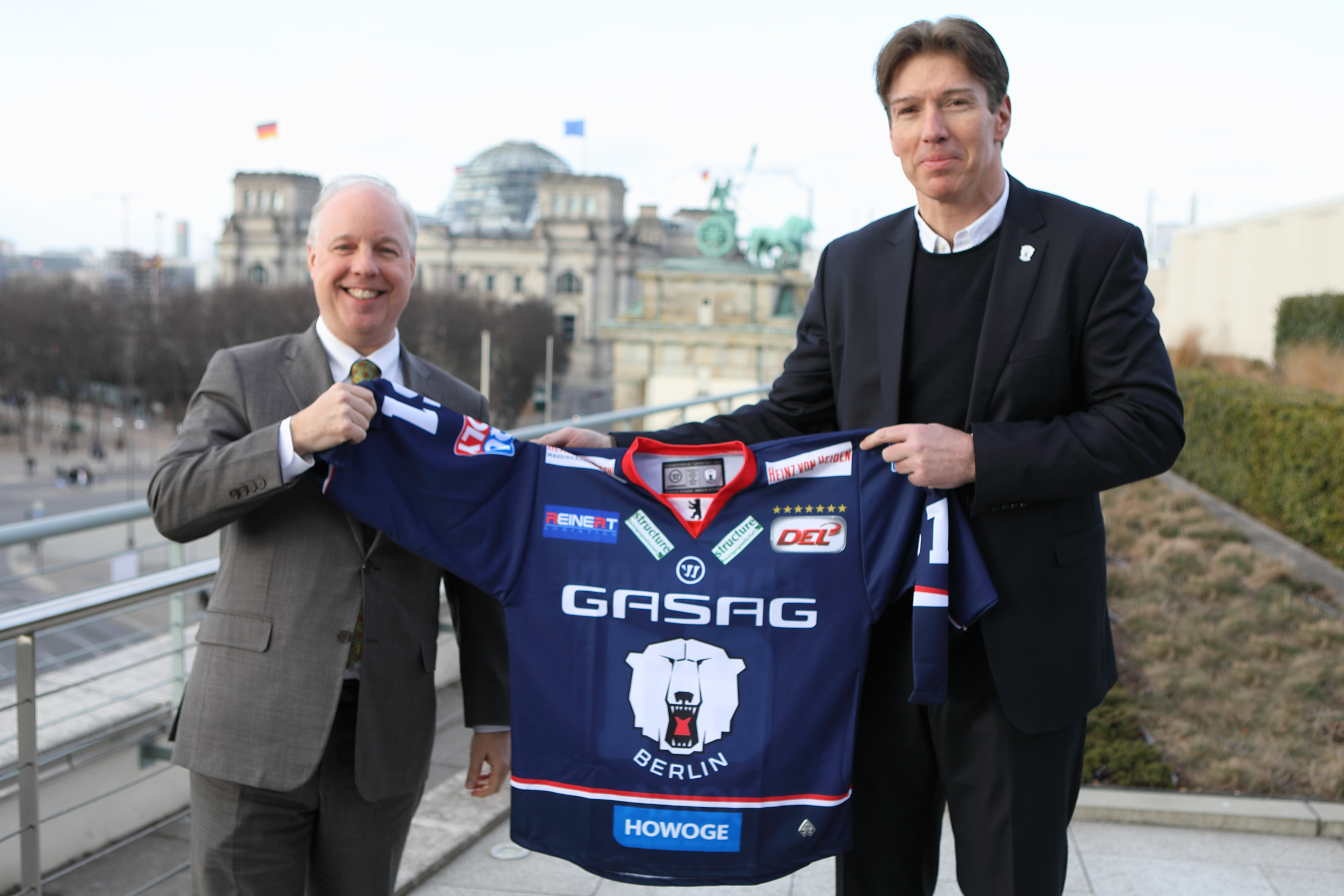 Chargé d’Affaires Kent Logsdon receives an Eisbären jersey from coach Uwe Krupp